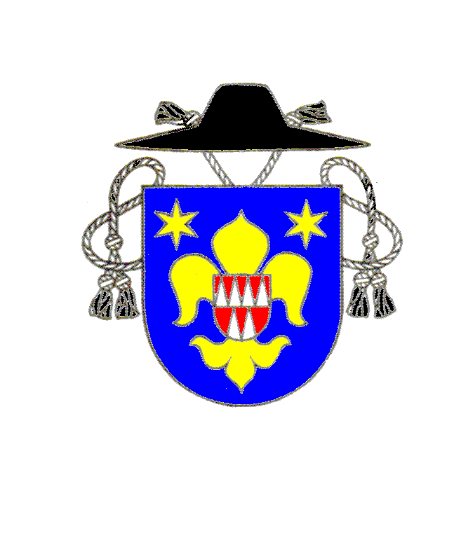 Coat of Arms of Deanery Konice, Archdiocese Olomouc